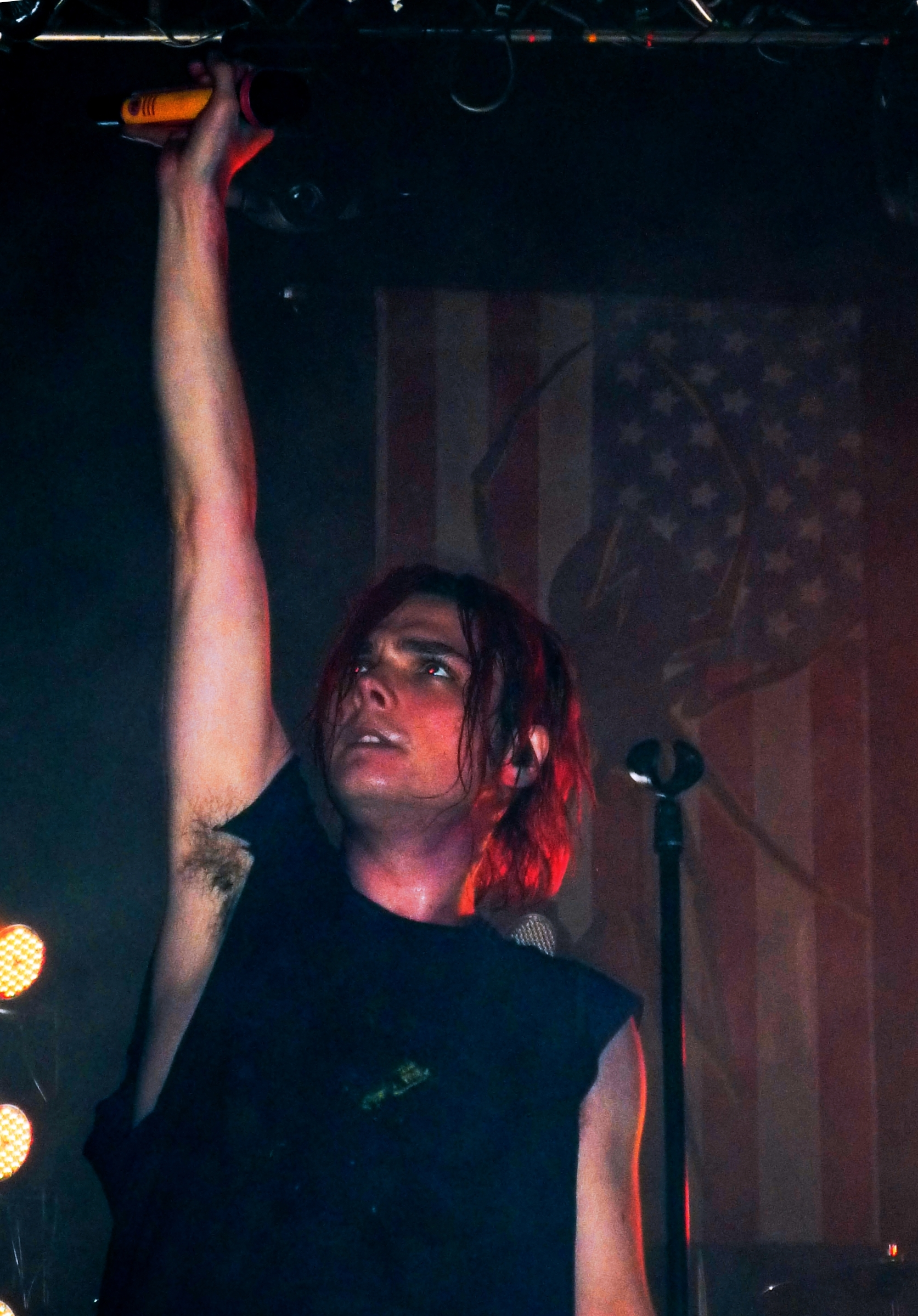 Gerard Way, 11/3/2010 in Berlin (Kesselhaus)